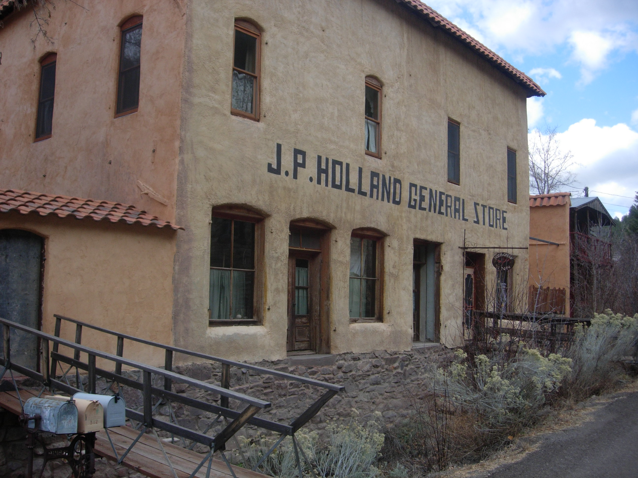 J.P. Holland General Store in the town of Mogollon, NM. Taken in 2006